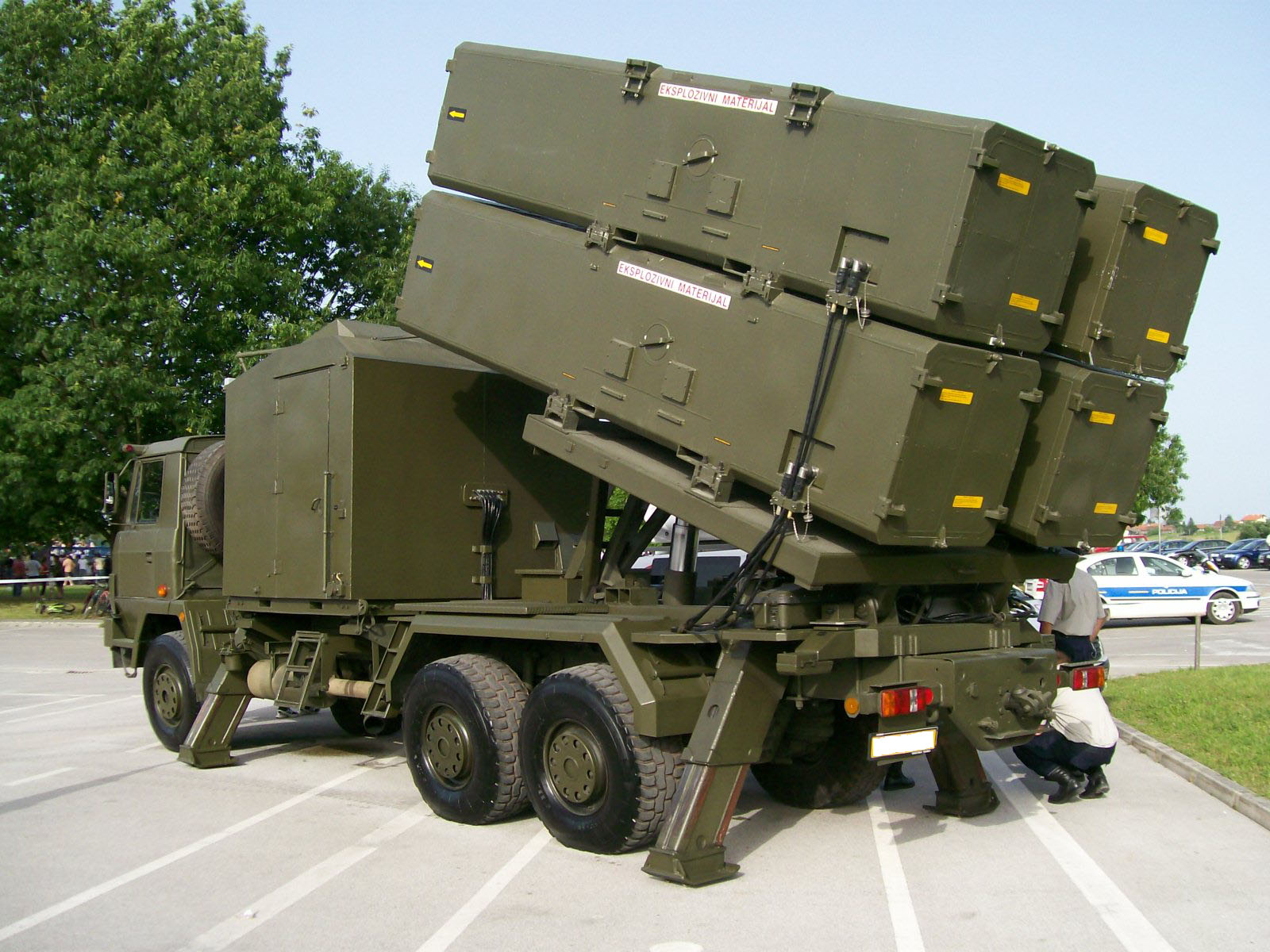 Croatian Mobile anti-ship missile launcher equipped with RBS-15